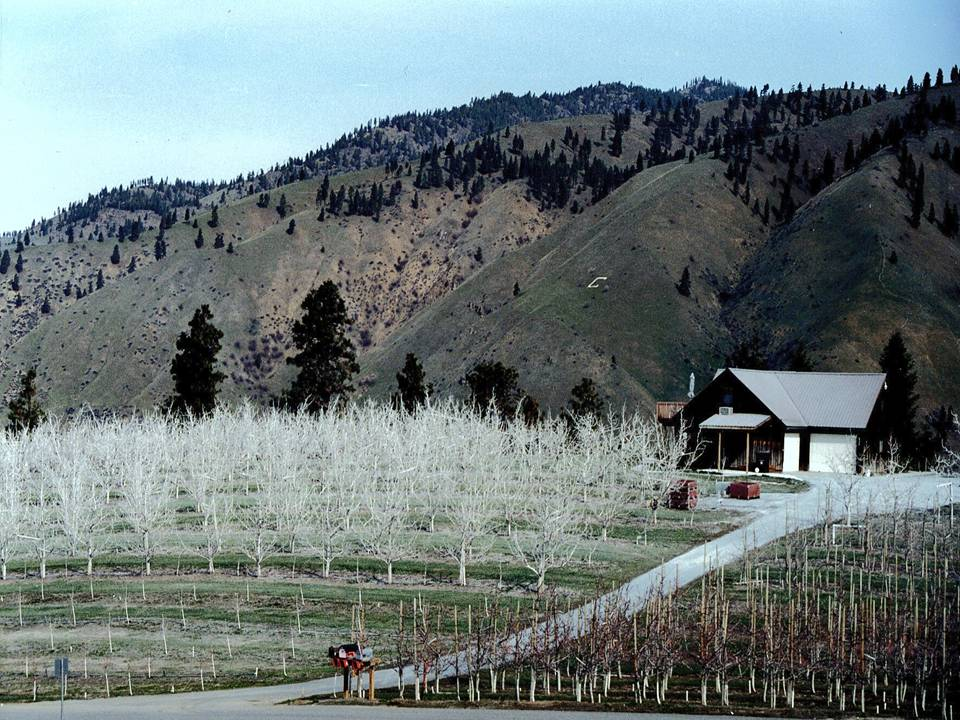 Kaolin spray applied to pear trees just prior to bud burst is a common and effective means of controlling a key pest, pear psylla. The kaolin spray deposits a mineral particle film which creates a physical barrier to pear psylla attack.